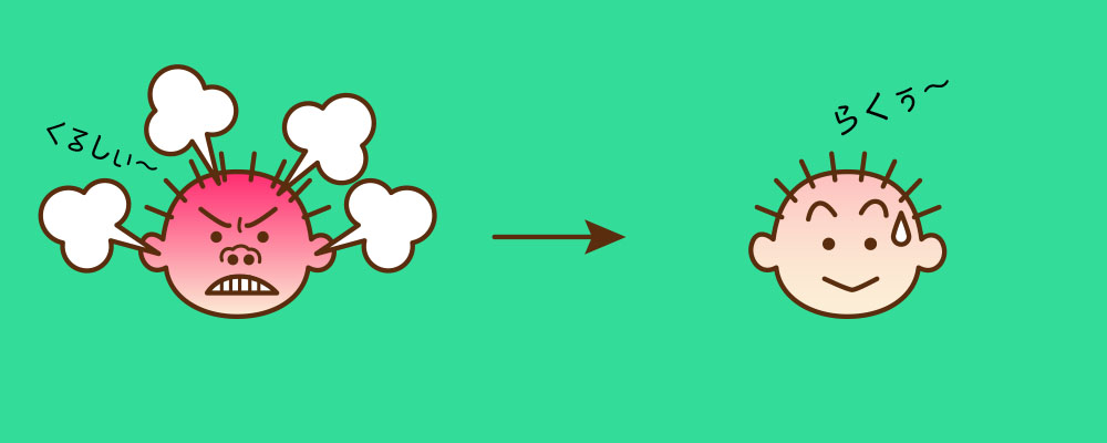 An illustration for anger management drawn by Akira Okitsu, Shizuoka Angermanagement Workshop, 2018.